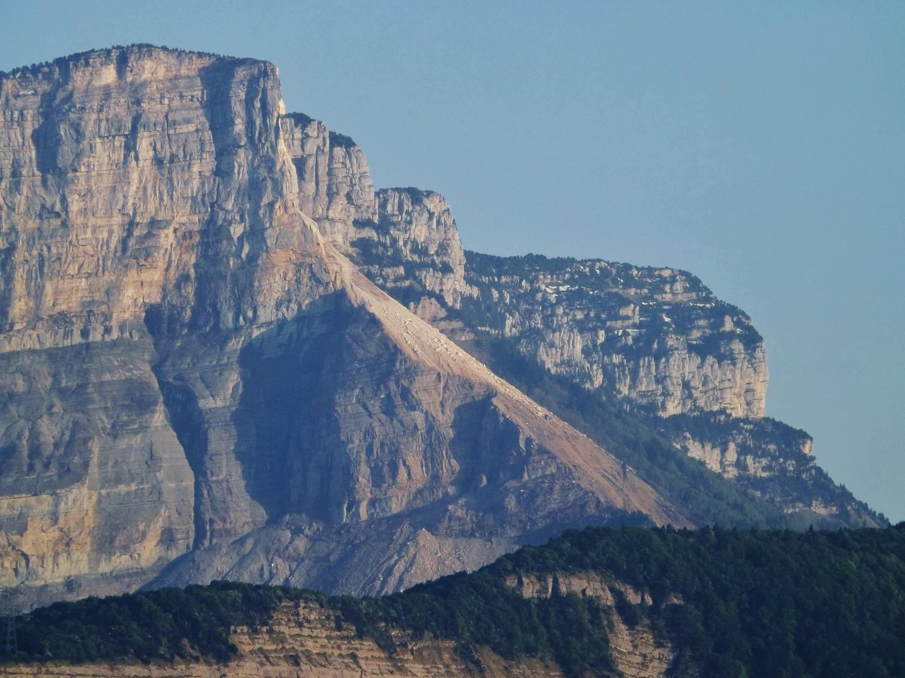 Sight of the western side of the Mont Granier which has known a collapsing of January 2016, in Savoie, France.